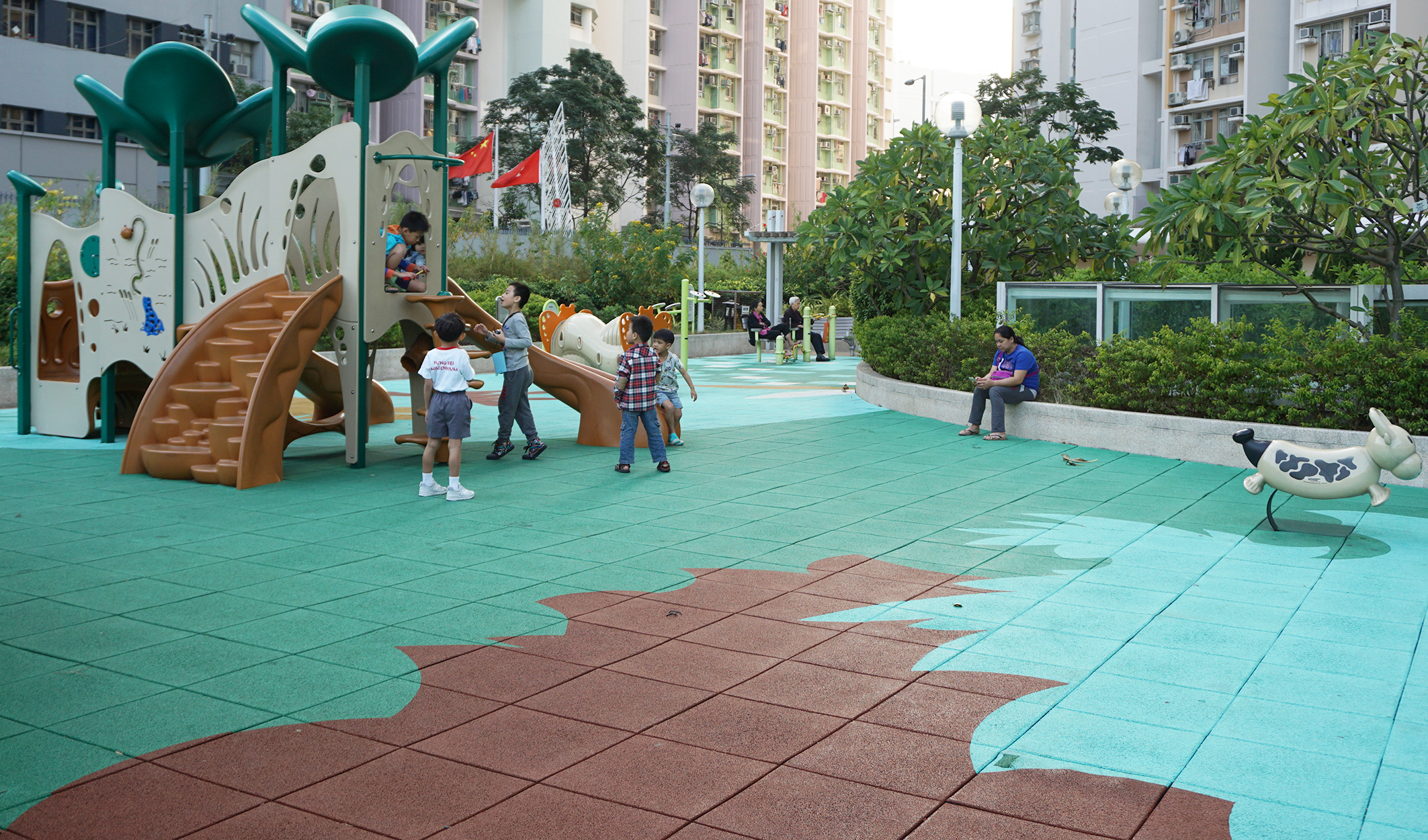 Hung Hom Estate in Whampoa, Hong Kong.